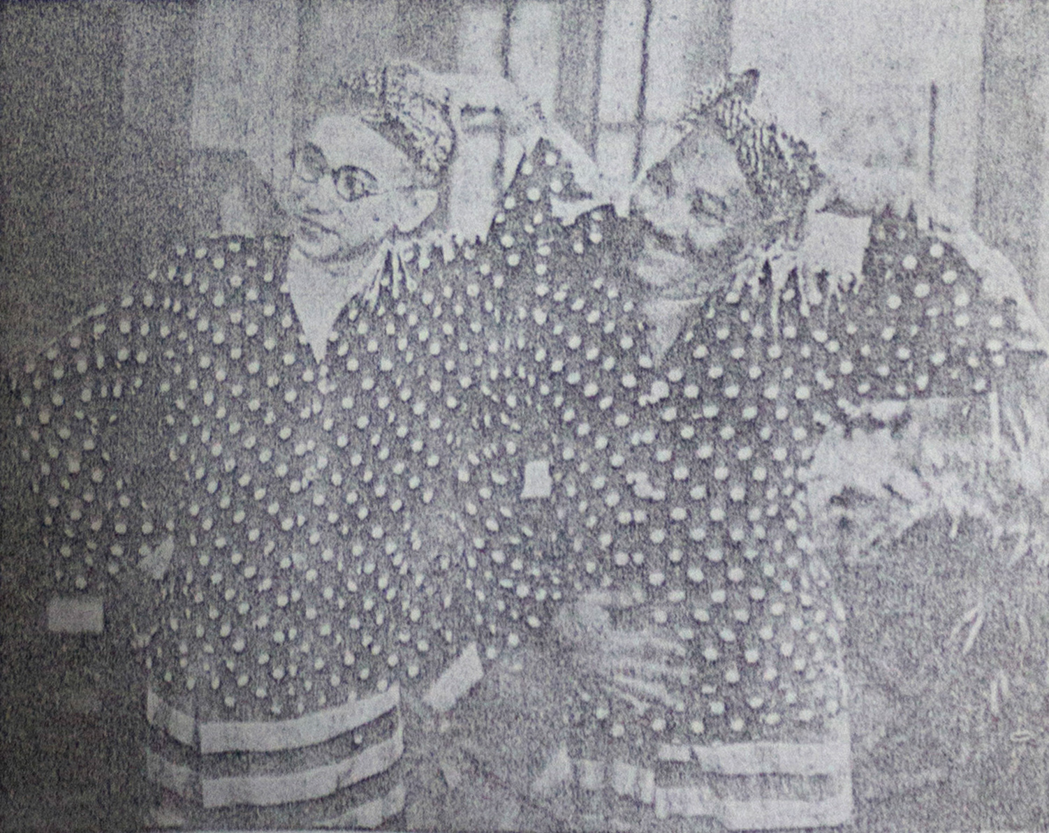 Indonesian actors Sarip and Pah Wongso in a scene from Pah Wongso Tersangka